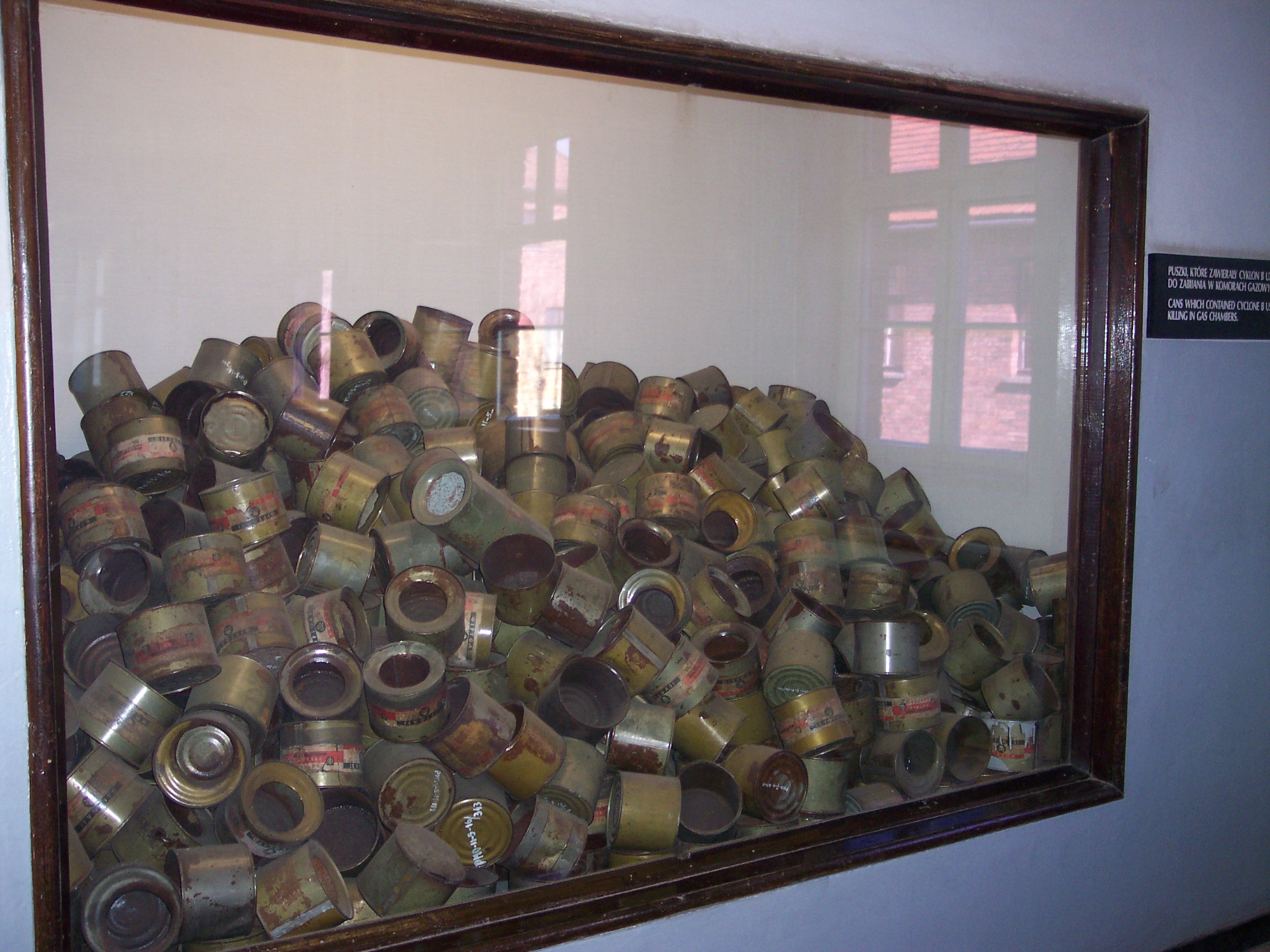 Exhibition Material Proofs of Crimes at Auschwitz I